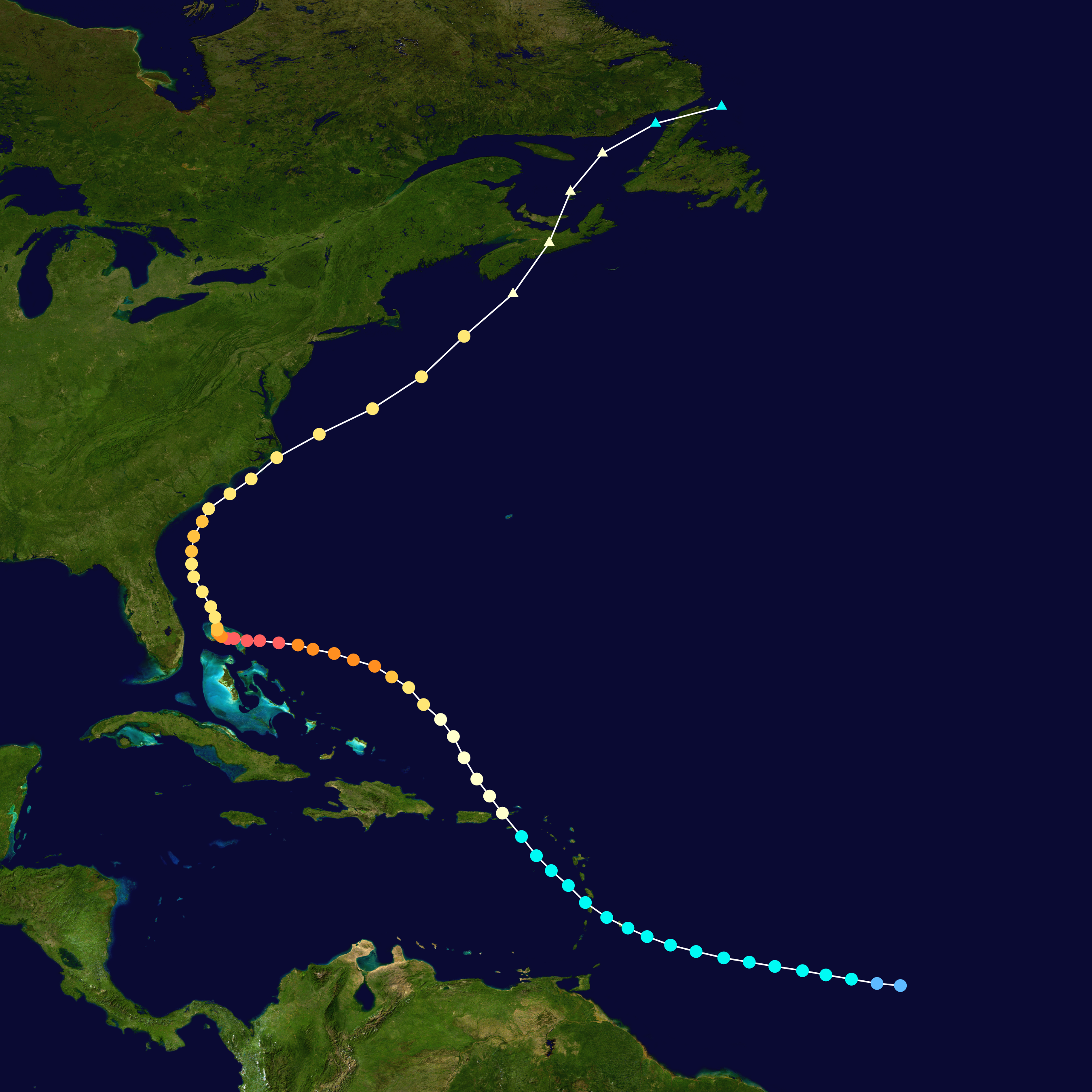 Track map of Hurricane Dorian of the 2019 Atlantic hurricane season. The points show the location of the storm at 6-hour intervals. The colour represents the storm's maximum sustained wind speeds as classified in the Saffir–Simpson scale (see below), and the shape of the data points represent the nature of the storm, according to the legend below. Saffir–Simpson scale Tropical depression≤38 mph≤62 km/h Category 3111–129 mph178–208 km/h Tropical storm39–73 mph63–118 km/h Category 4130–156 mph209–251 km/h Category 174–95 mph119–153 km/h Category 5≥157 mph≥252 km/h Category 296–110 mph154–177 km/h Unknown Storm type Tropical cyclone Subtropical cyclone Extratropical cyclone / Remnant low / Tropical disturbance / Monsoon depression